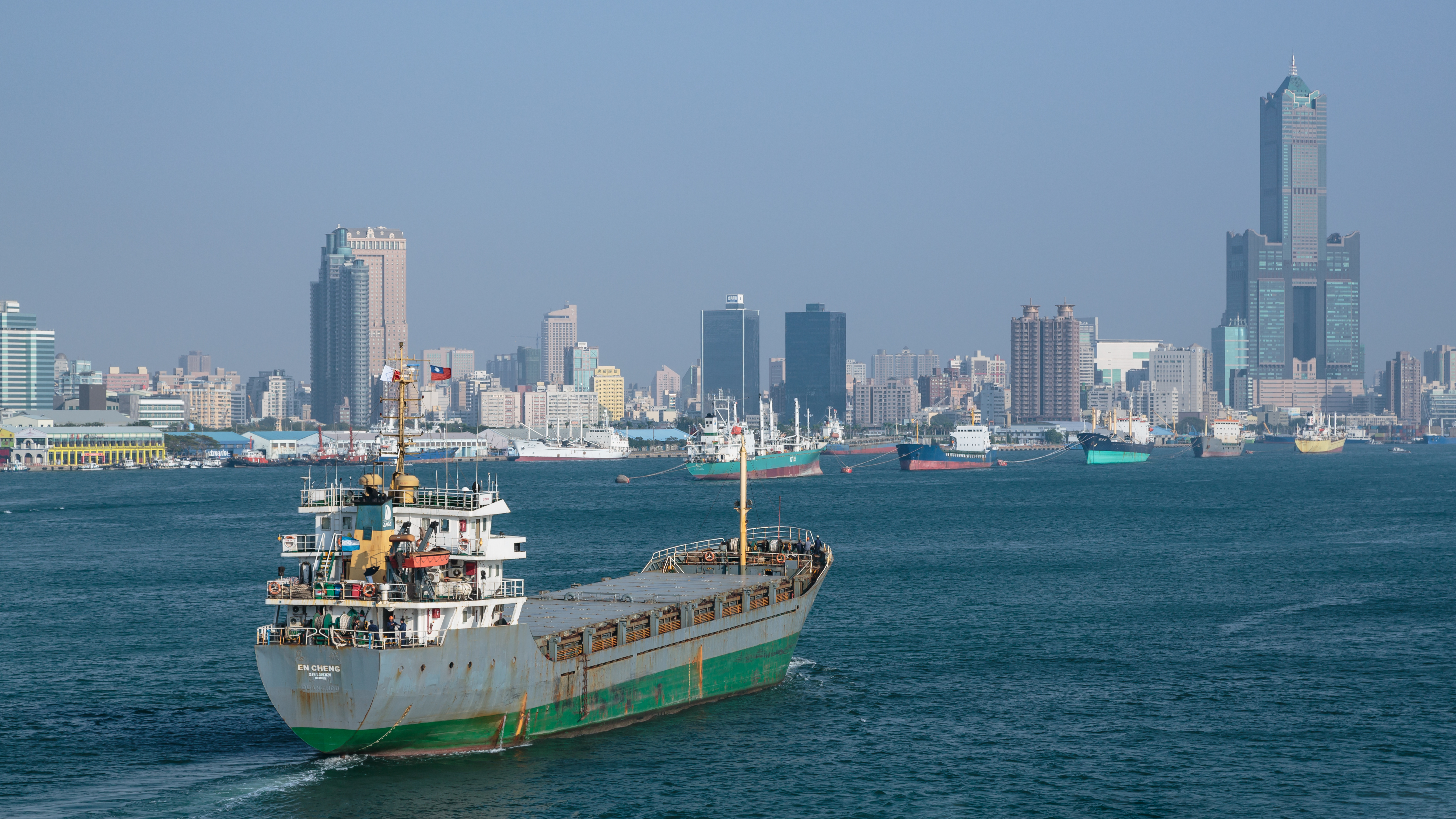 Kaohsiung, Taiwan: Cargo ship En Cheng entering the harbour of Kaohsiung.